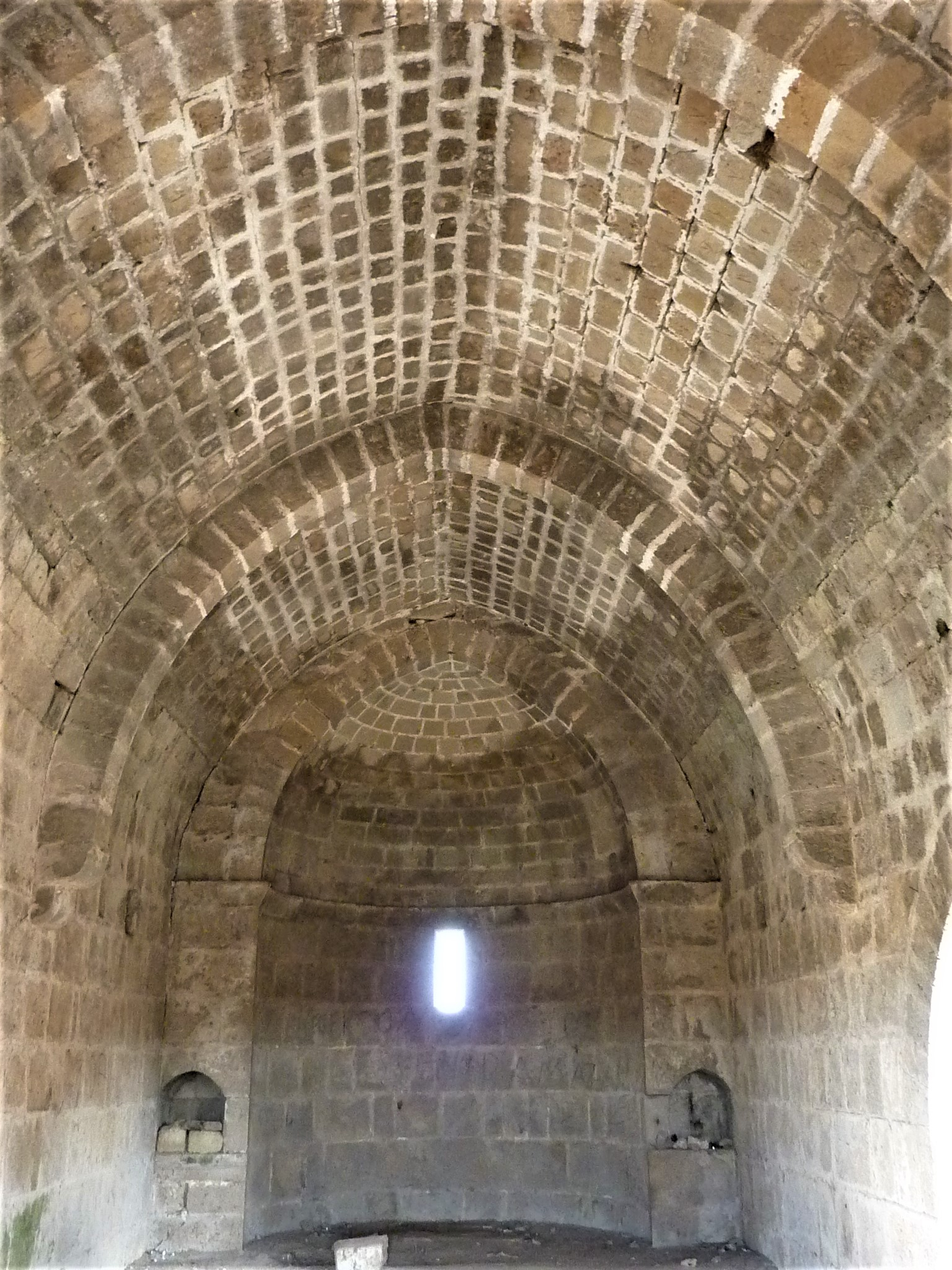 Panagia Chrysiotissa, Aphendrika (near Dipkarpaz)